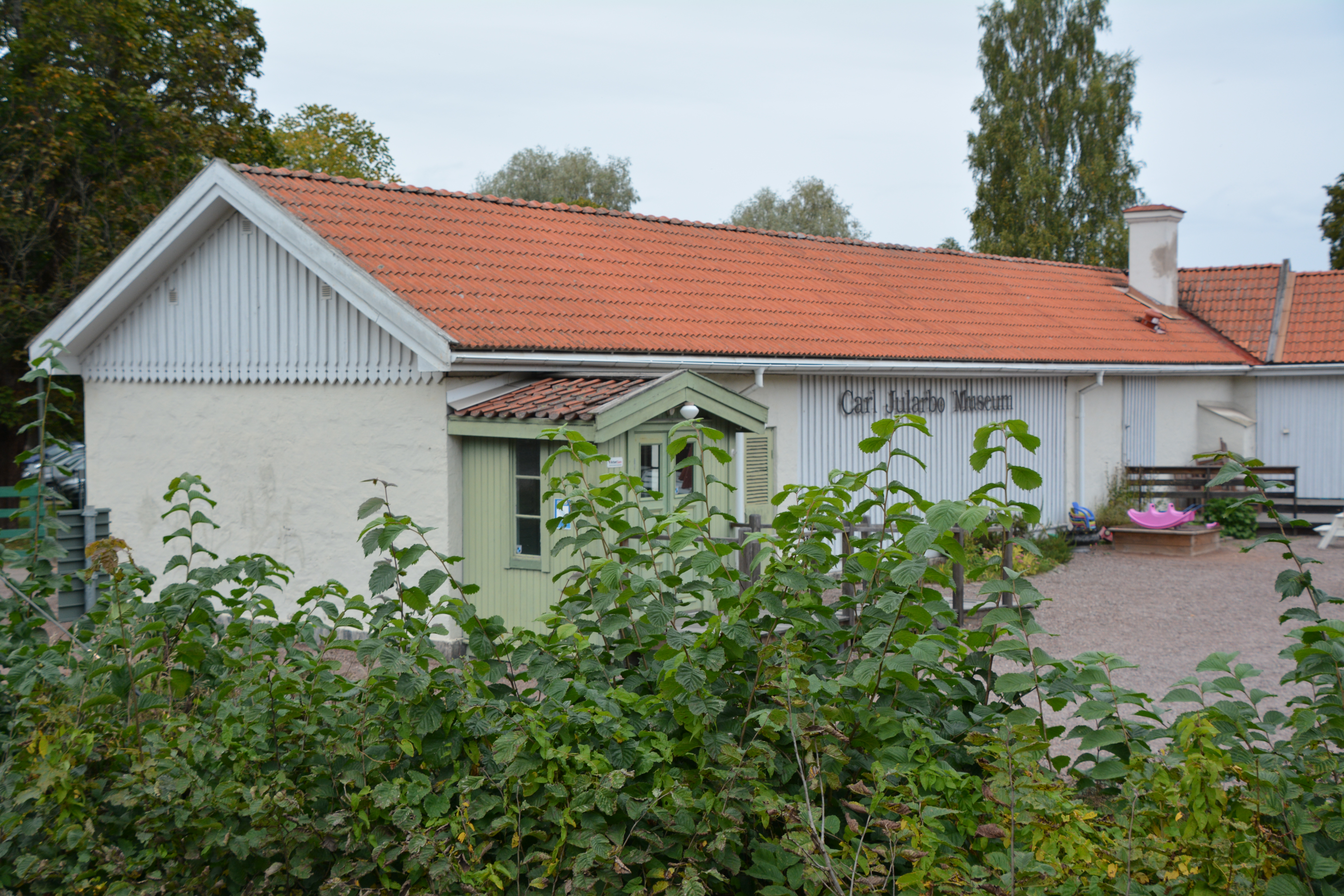 Carl Jularbo museum